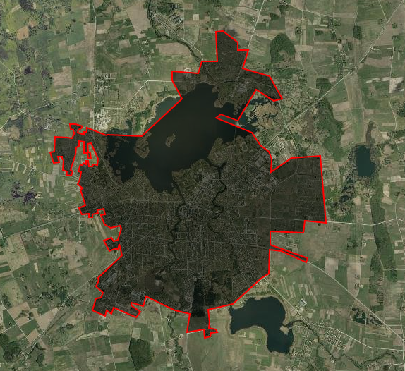 Biržai city territory.